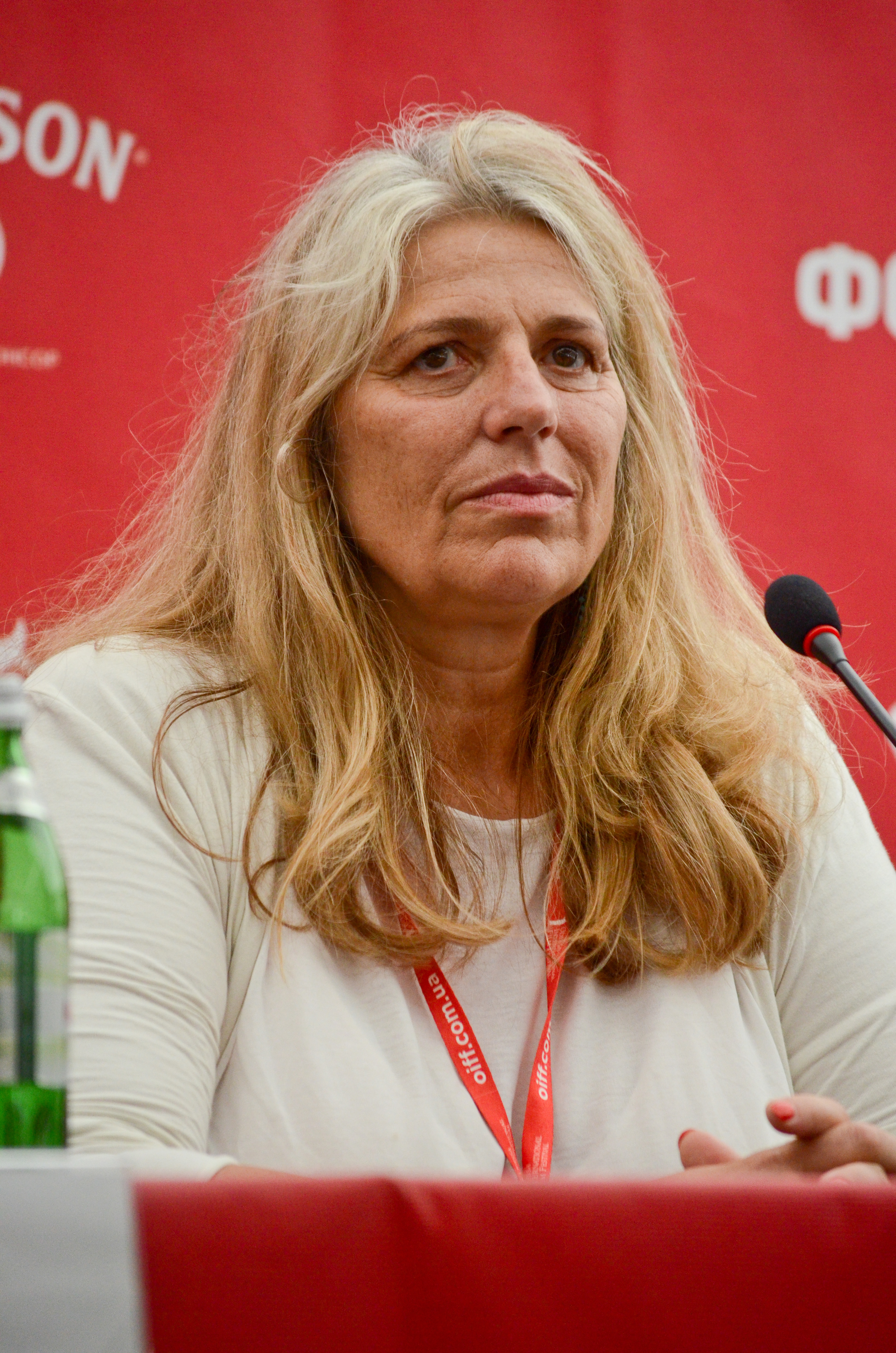 French filmmaker Brigitte Sy at the 6th Odessa International Film Festival.